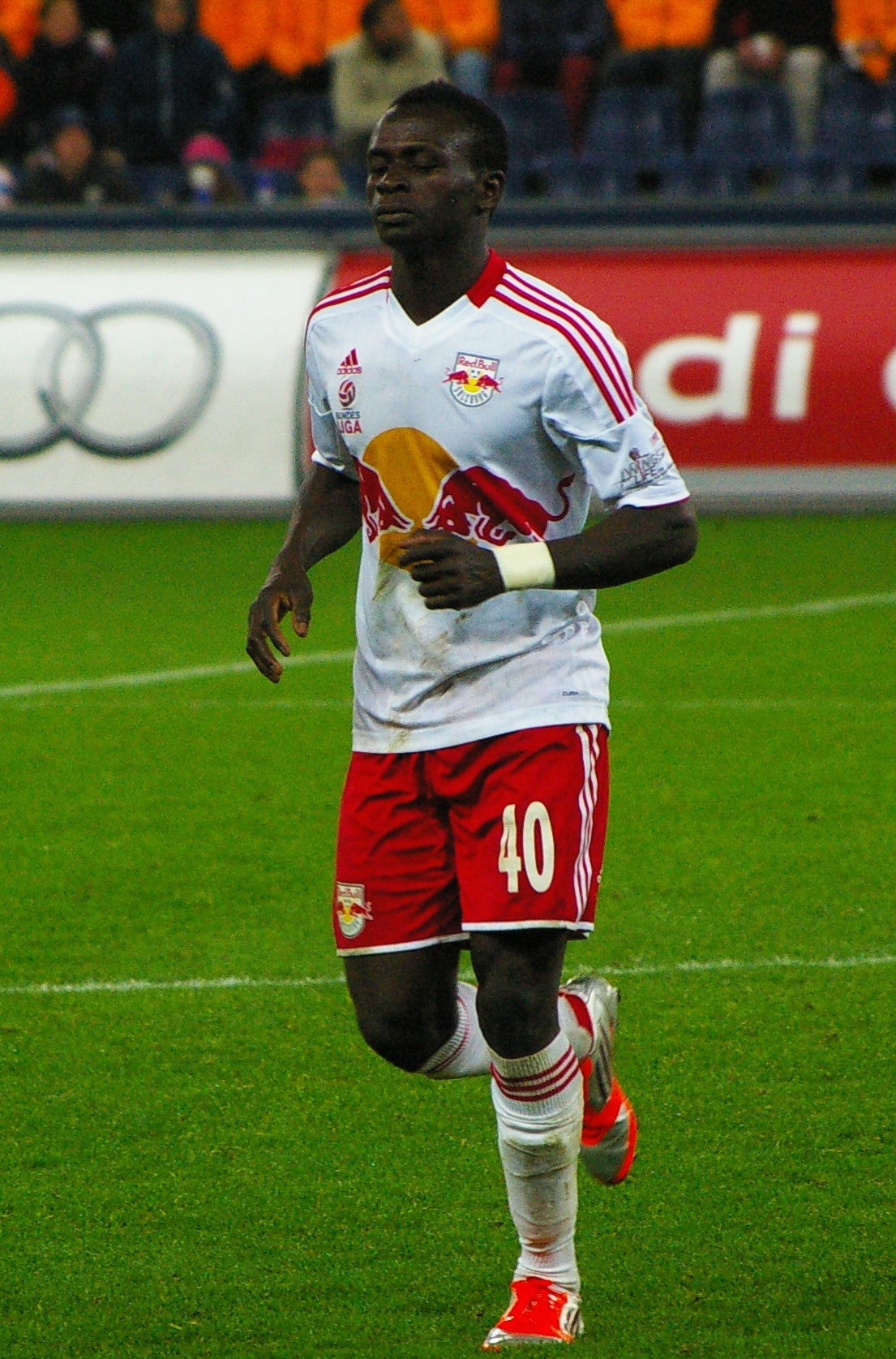 midfielder RB Salzburg